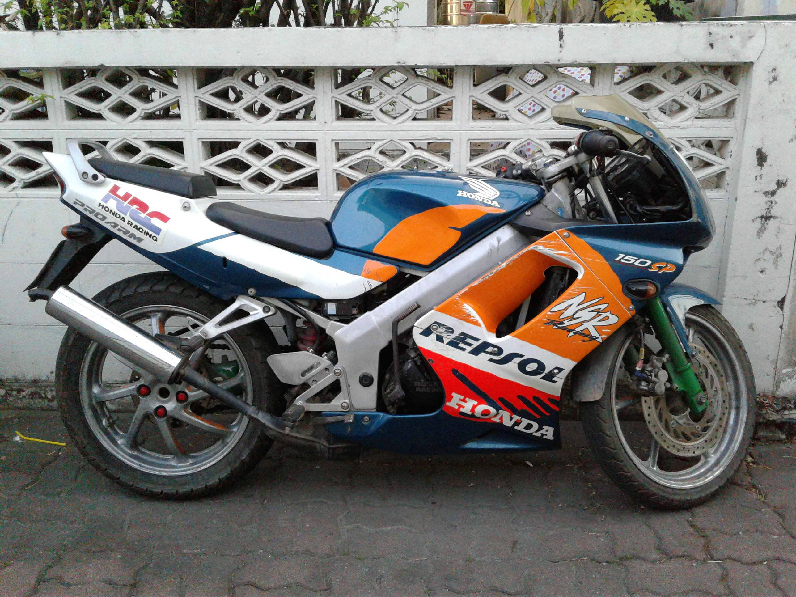 Honda NSR 150 SP